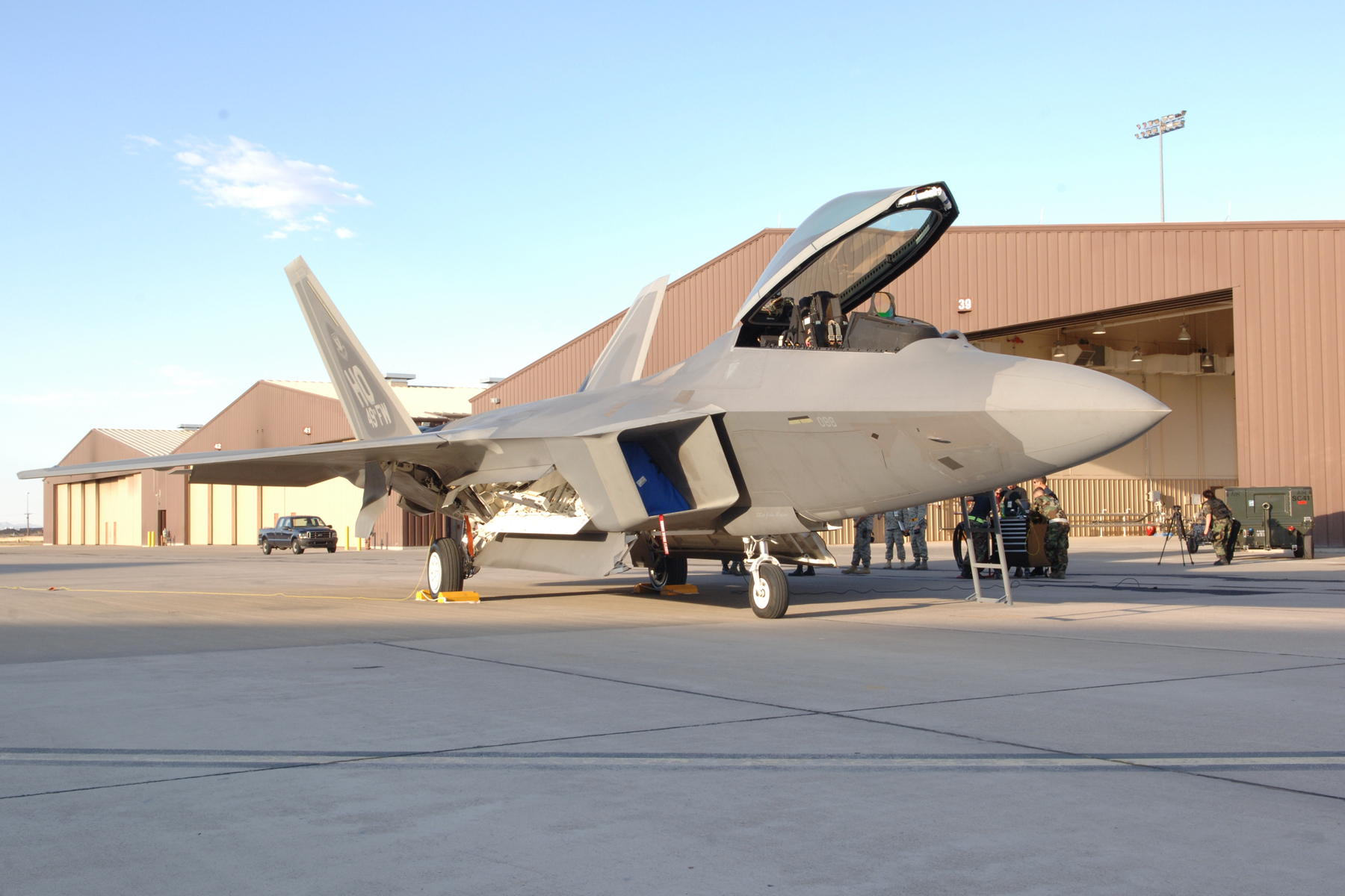 F-22 Raptor at Holloman AFB, New Mexico, USA